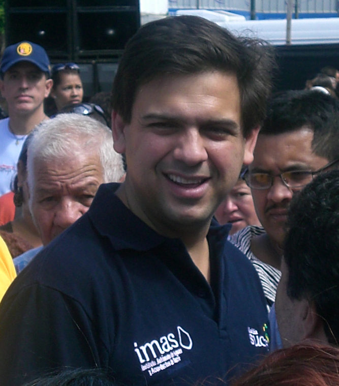 Venezuelan politician Carlos Ocariz during an event in Petare, Caracas.